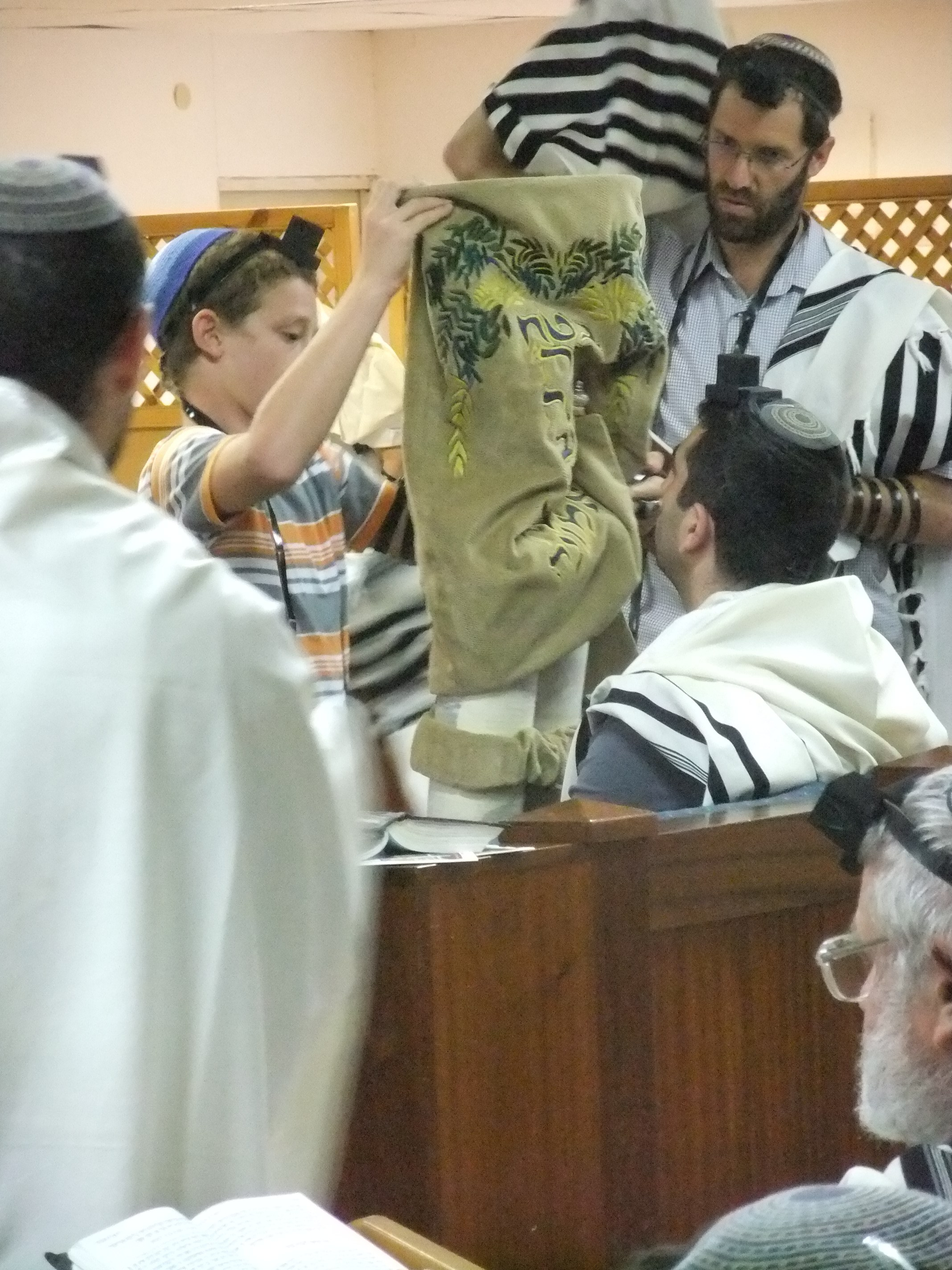 Glila - the covering of the Torah with its coat